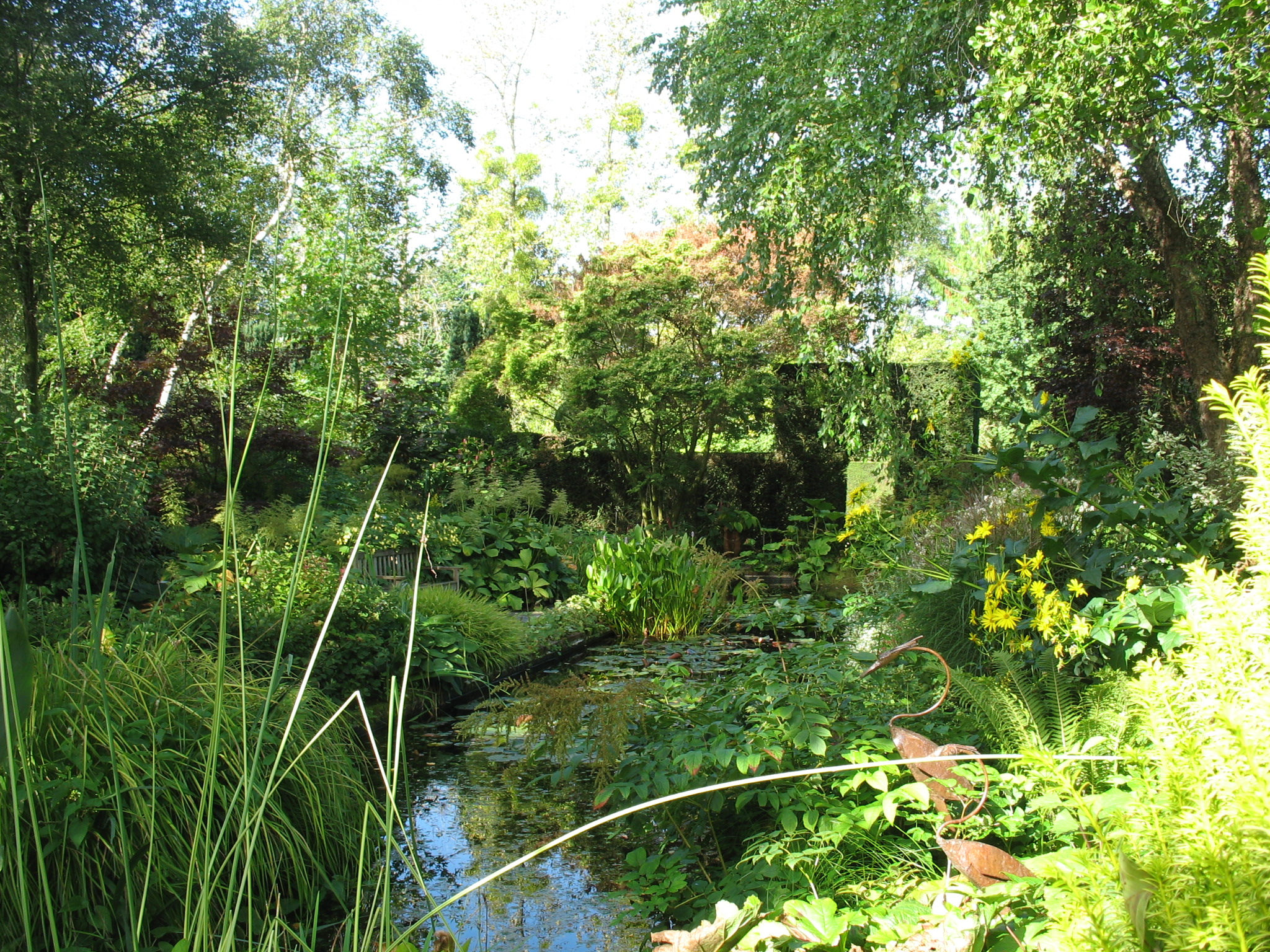 Plantbessin - Castillon